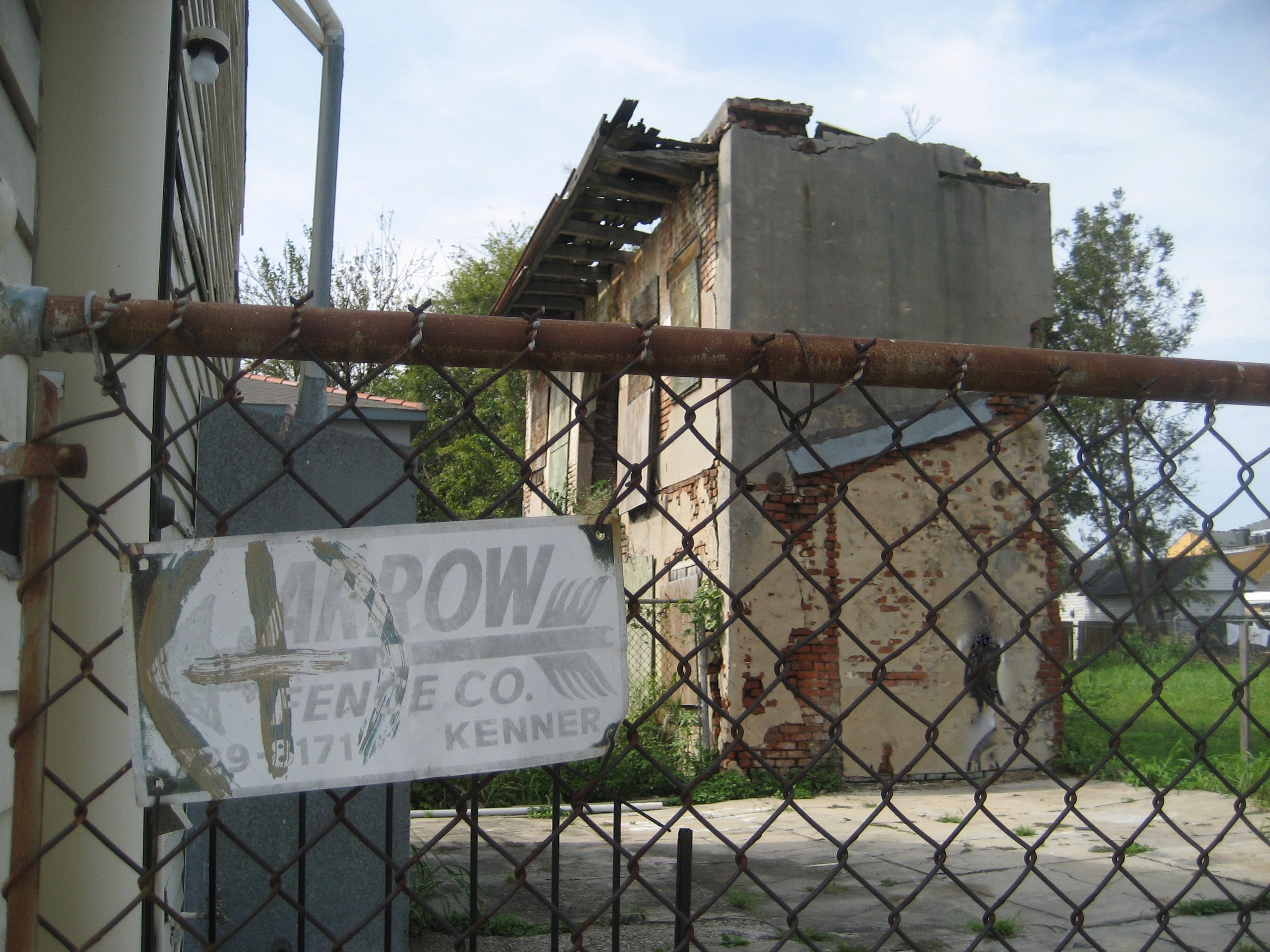 Treme neighborhood, New Orleans. Decayed old carriage house behind fence.